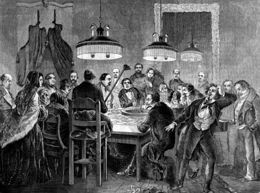 Casino in Bad Homburg, Germany. 1849. Caption (above): Eine Spielhölle (A gambling house). Caption (below): Die Roulette zu Homburg, nach einer Originalskizze von W. Hilliger (The roulette in Homburg; based on an original sketch by W. Hilliger)